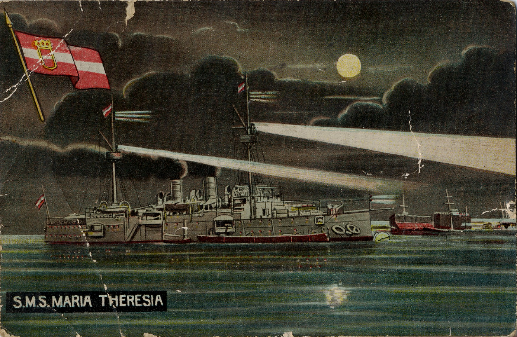 Postcard from the armored cruiser SMS Kaiserin und Königin Maria Theresia, a armored cruiser from 1893 of the Austro-Hungarian Navy. At the beginning of the First World War the ship was already outdated. But it served as a guard ship for the port. This postcard (lithograph) was sent on 09.08.1914 as field post of Pula, at that time part of the Austro-Hungarian Littoral nowadayy Croatia to Obermillstatt in Carinthia. The card is from a recruit who worked on the SMS Custoza, a training ship for cadets (auxiliary boat) as a carpenter. The postcard is designed as Moonlight Postcard. The rays of the searchlight of the cruiser are graphically highlighted. The sky is dark and cloudy. Reverse side